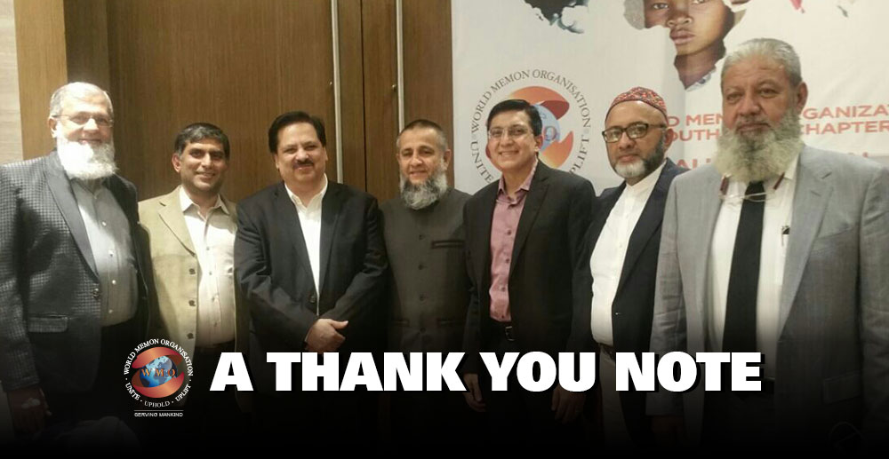 Prominent Memons of Sri Lanka and leading member of WMO - Far east chapter.